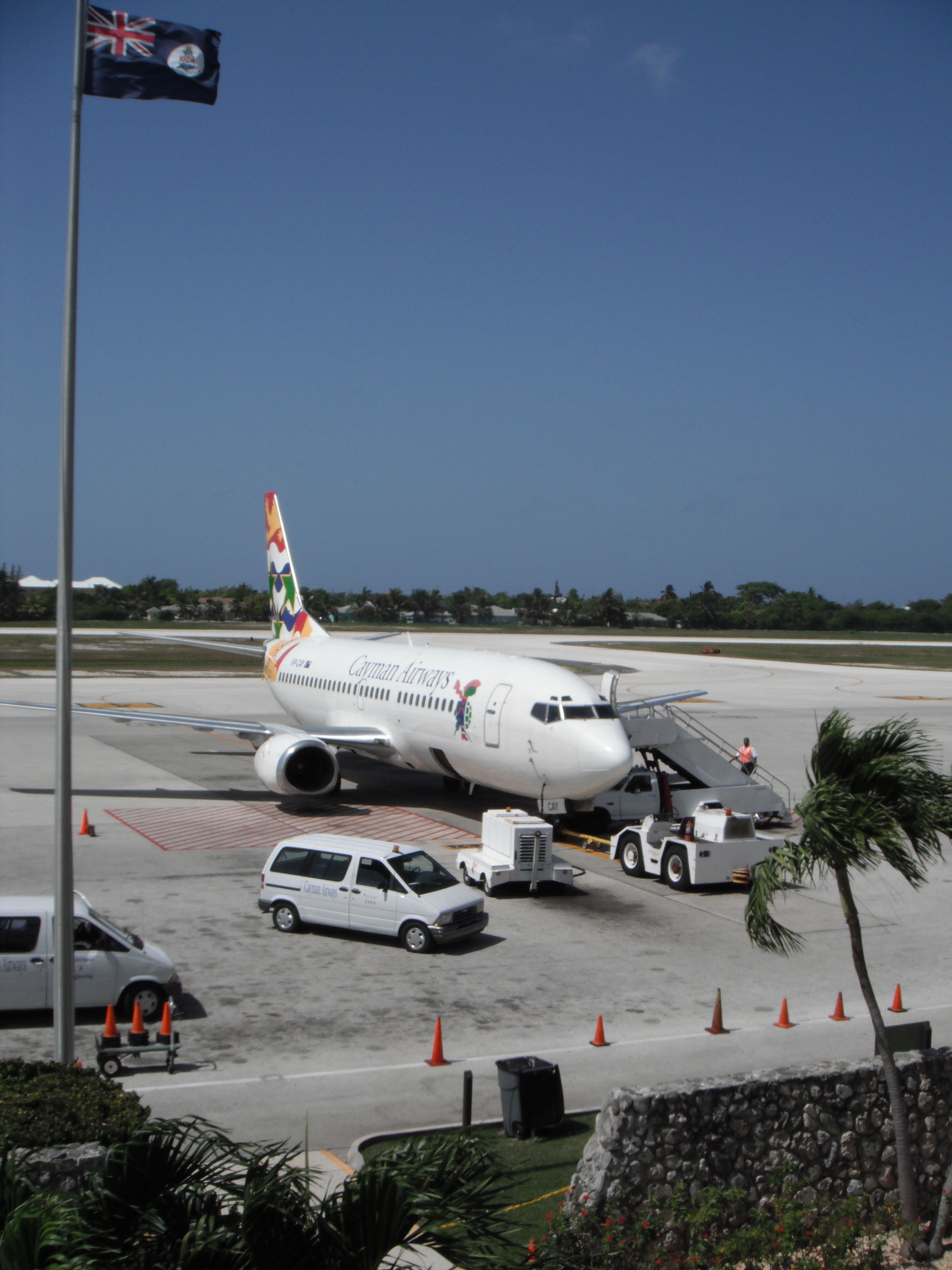 A Cayman Airways jet at Owen Roberts International Airport (GCM) being prepared for departure to Tampa International Airport (TPA)